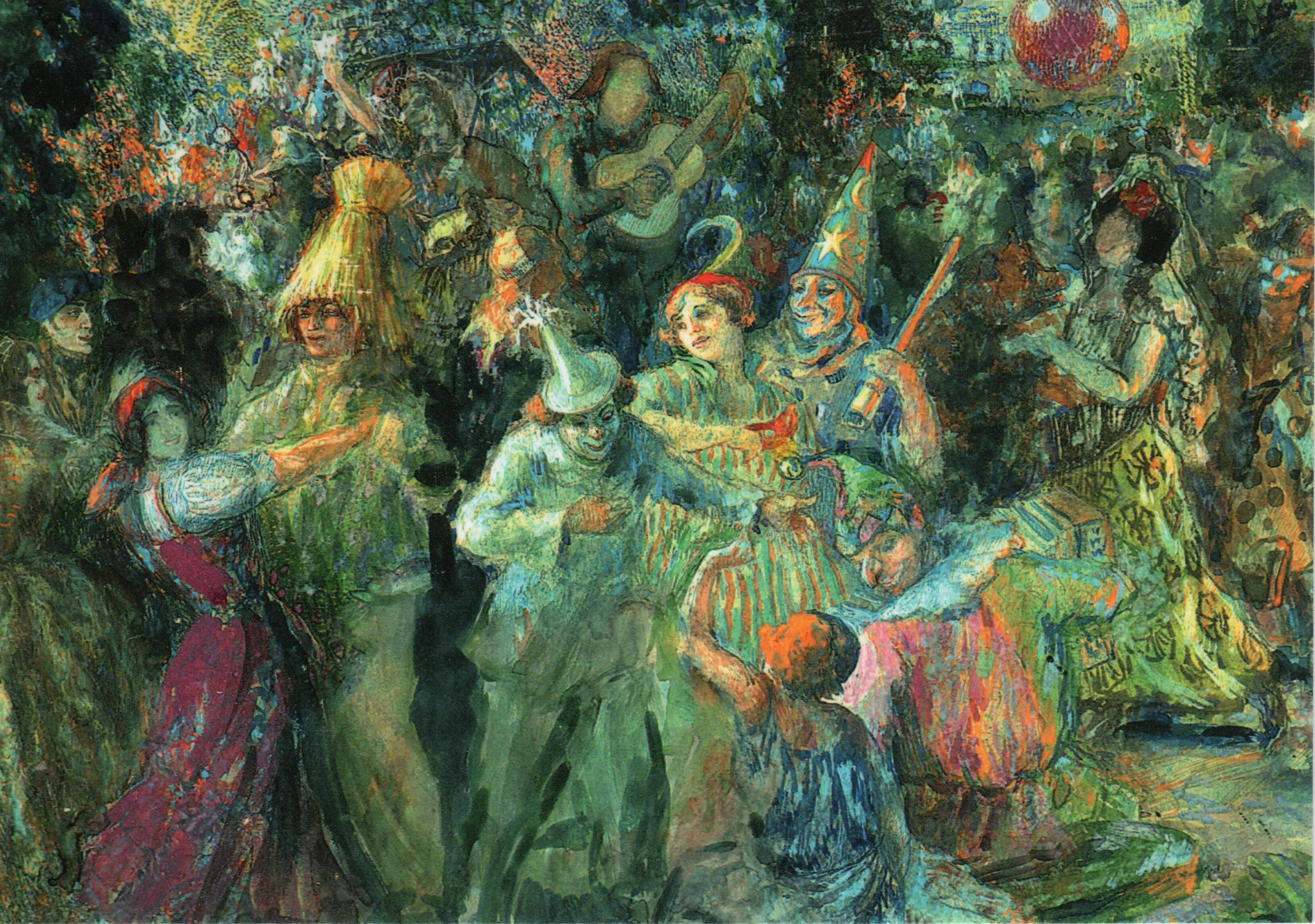 Fedor Adol'fovich Vogt. "Carnival", 1935. Paper on plywood, watercolor, gouache, pastel. National Art Museum of the Republic of Belarus.